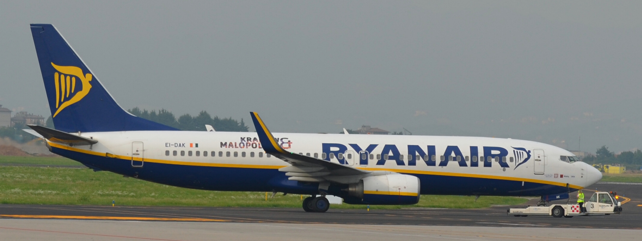 Pushback of an Boeing 737-800 with the registration EI-DAK at Bergamo Airport (BGY)